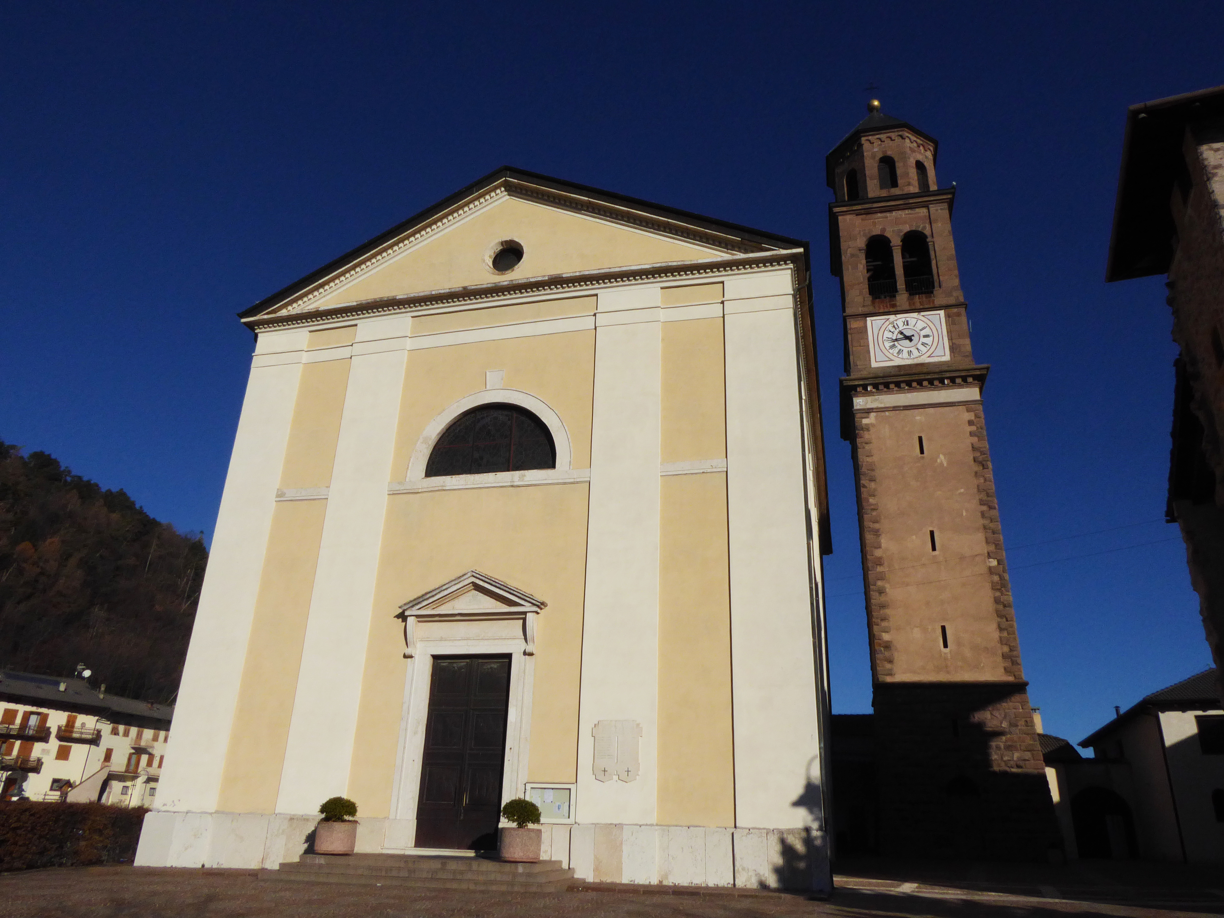 Fornace (Trentino, Italy) - Saint Martin church